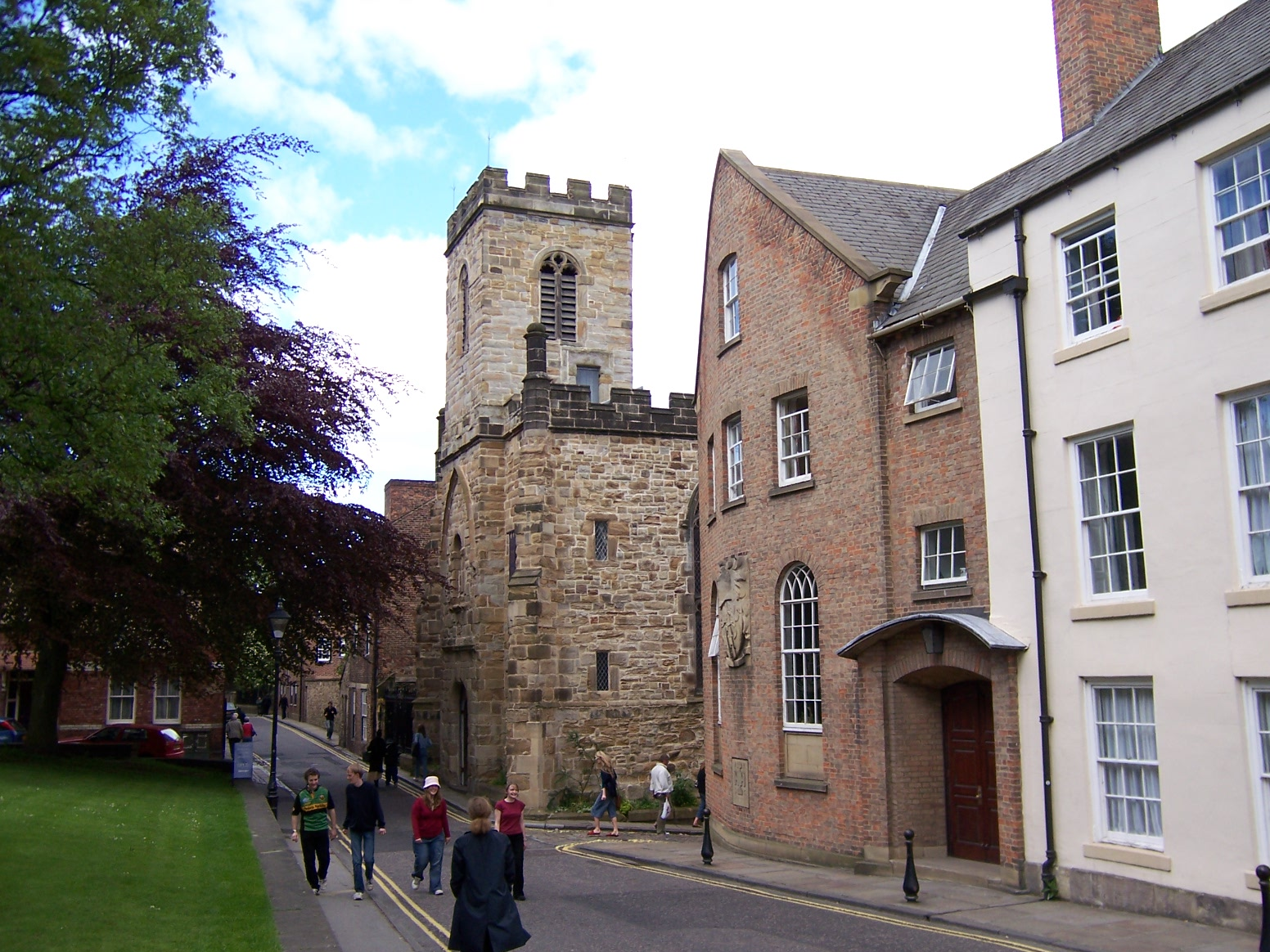 View north-northeast from South Bailey to North Bailey, Durham, England. The battlemented sandstone building with a tower is Durham Heritage Centre, which used to be the parish church of St Mary-le-Bow.